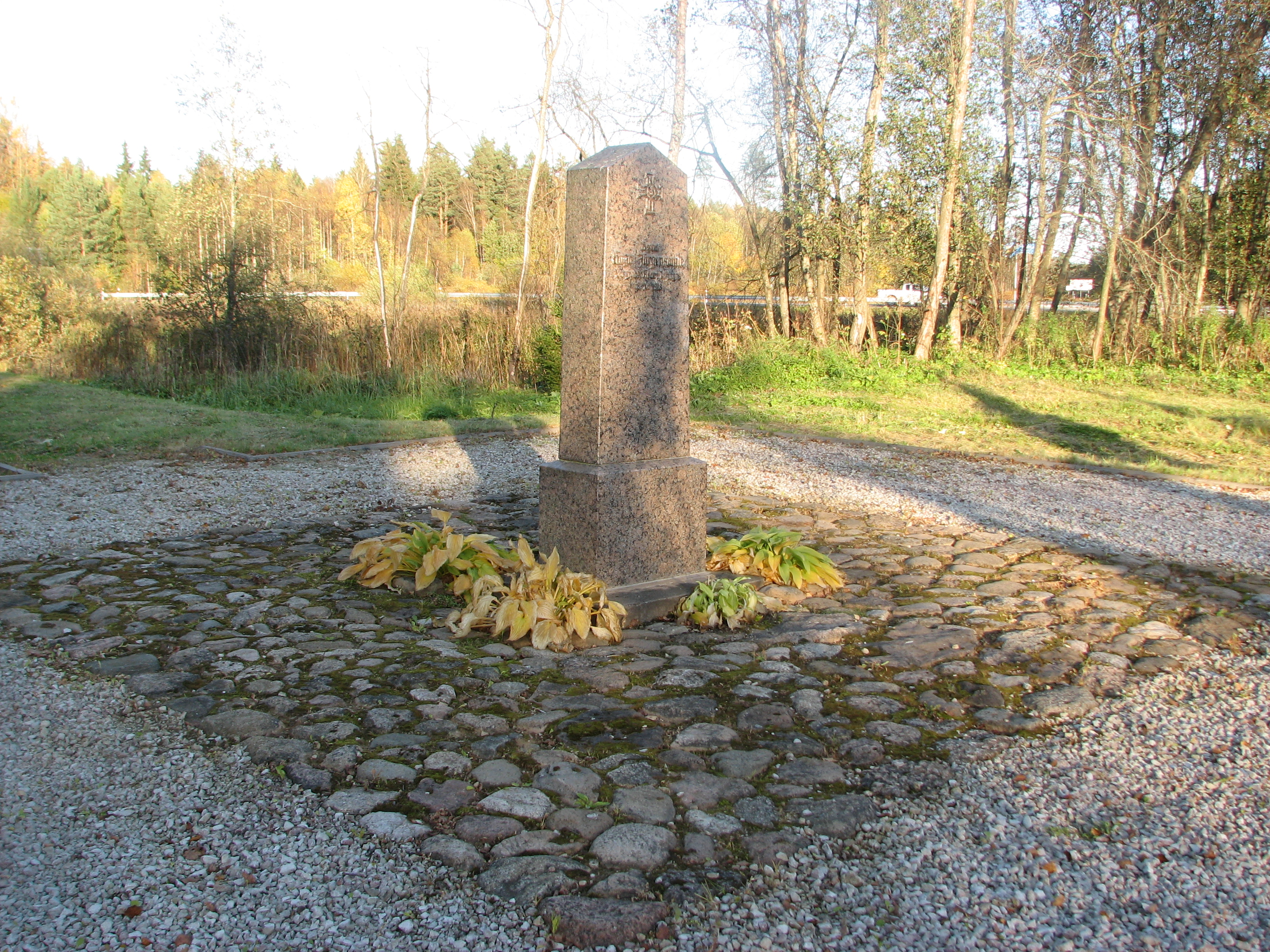 Statue of Estonian War of Independence in Kõrve, captain Hugo Jürgenson. Toila, Estonia